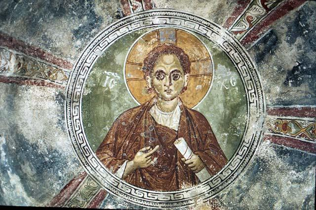 Icon of Jesus in Veljusa Monastery, Macedonia